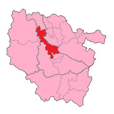 A map of Meurthe-et-Moselle's 6th Ccnstituency shown within Lorraine.